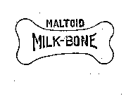 Milk-Bone logo, filed 1908, trademark application 71037335.